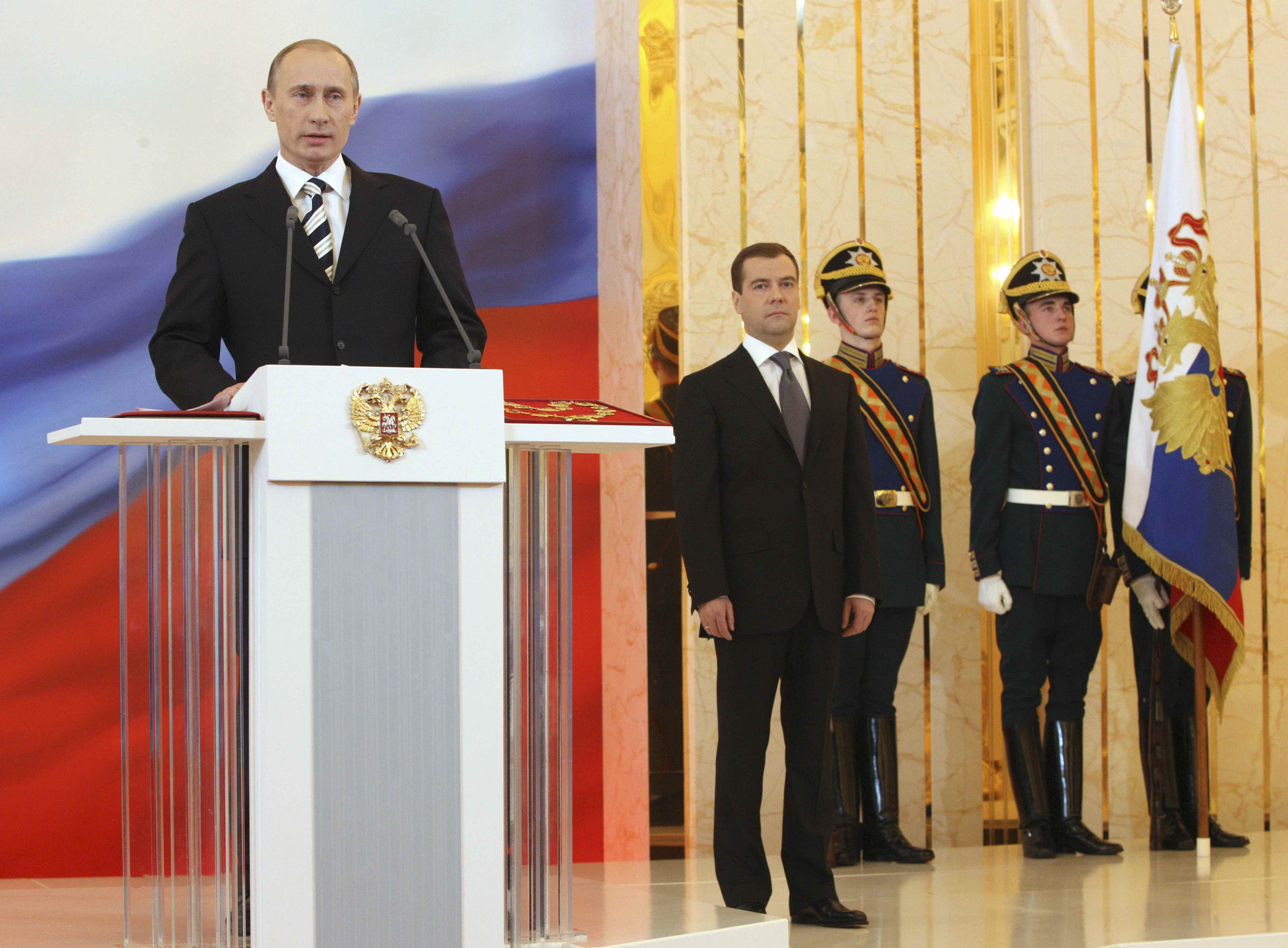 GRAND KREMLIN PALACE, MOSCOW. Speech by Vladimir Putin at the inauguration of Dmitry Medvedev as President of Russia.